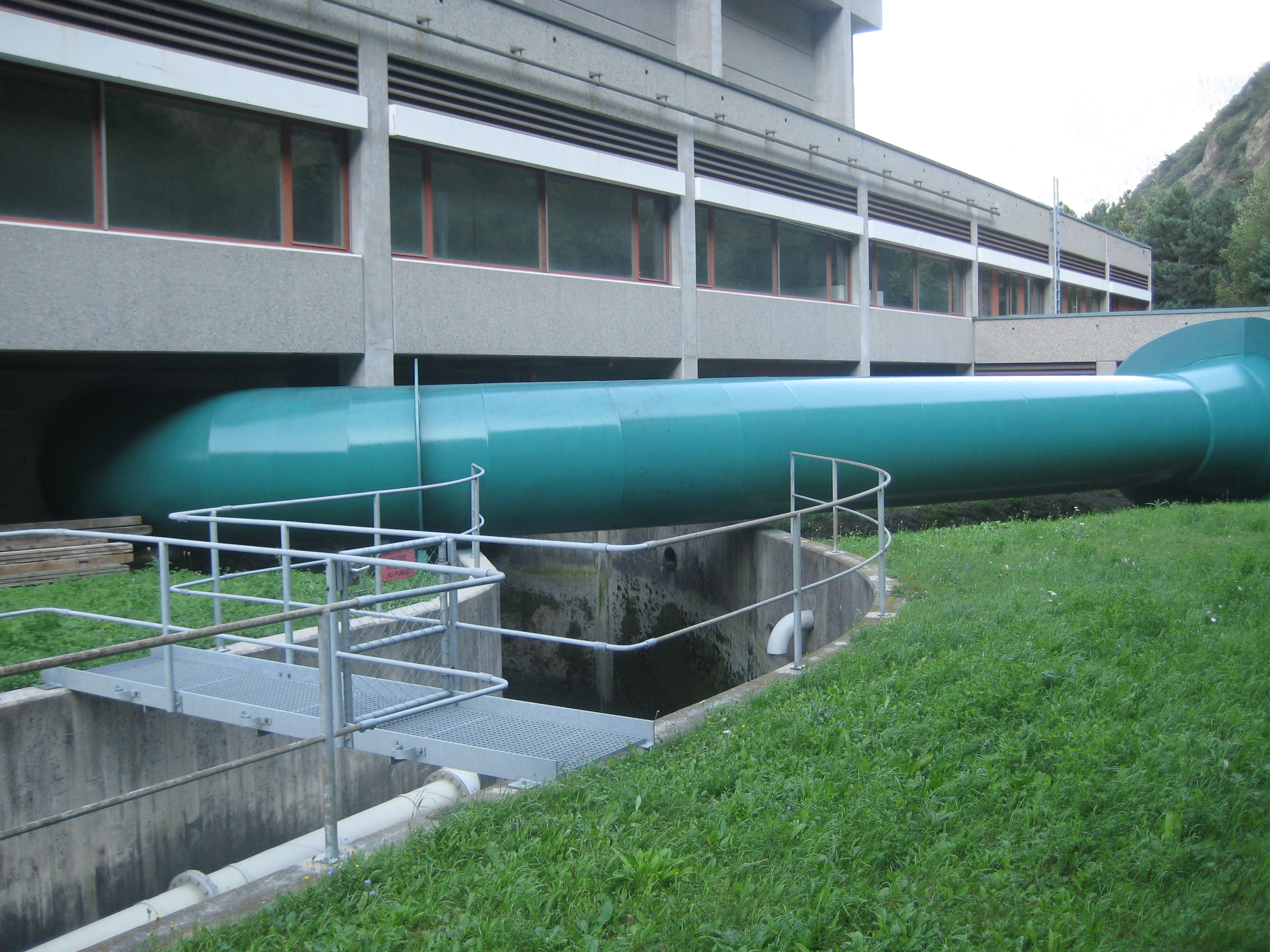 Hydroelectric power plant in Martigny, Valais